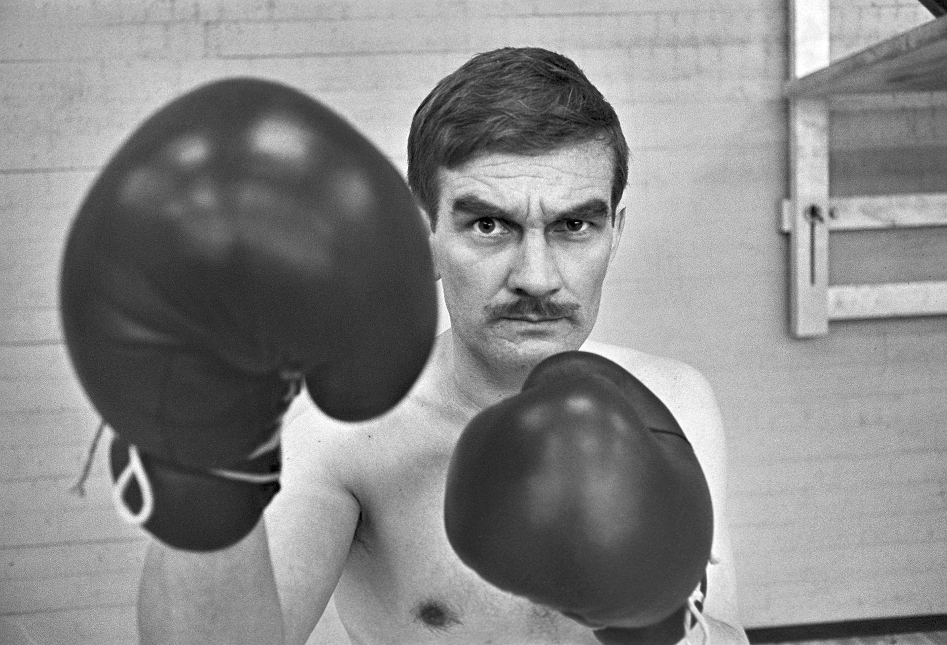 Photograph of the Finnish stage artist, hypnotist Erkki Olavi Vilhelm Hakasalo a.k.a. Olliver Hawk (1930–1988) as a boxer.